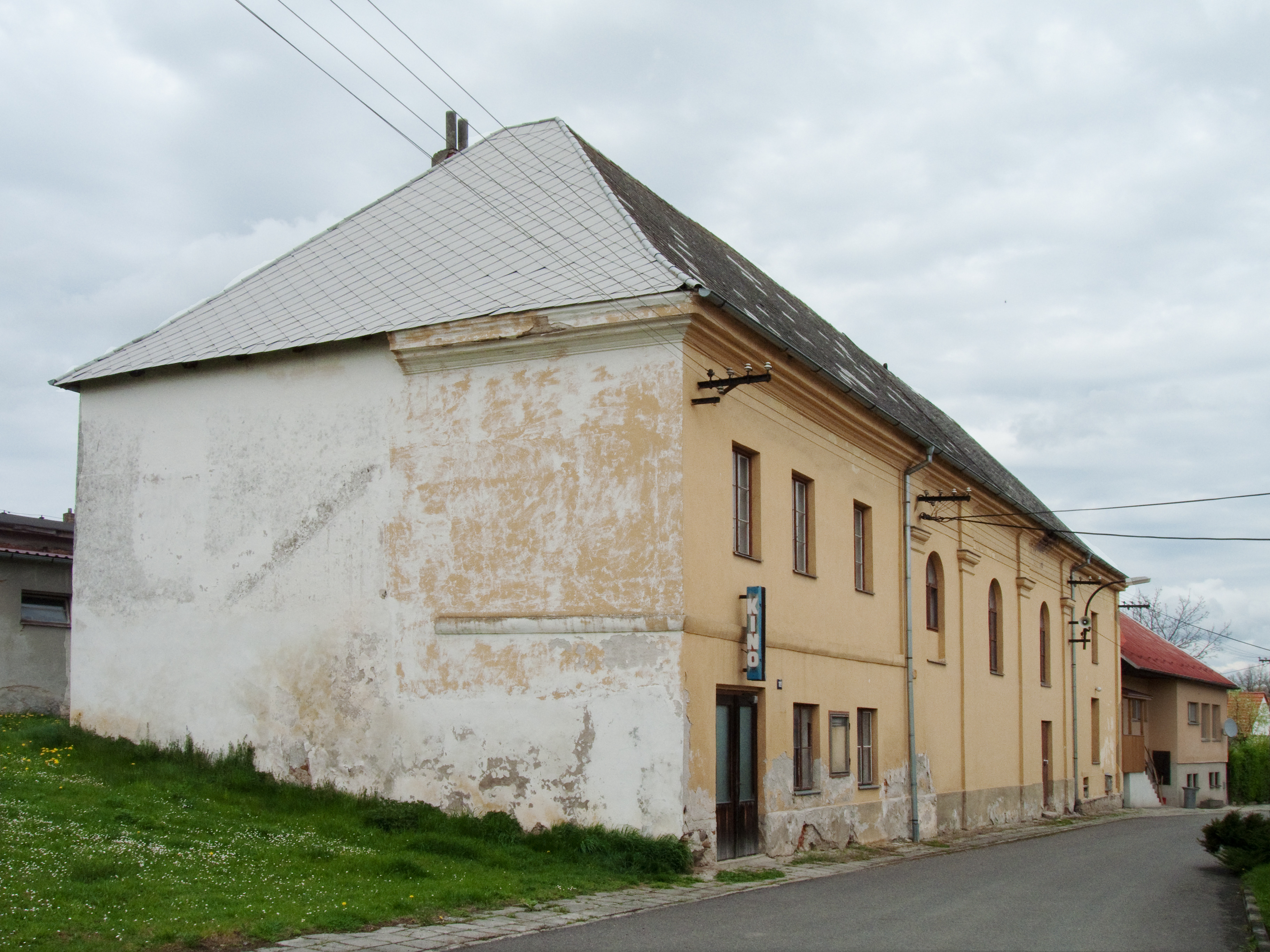 Synagogue in the village of Stádlec, Tábor District, Czech Republic.